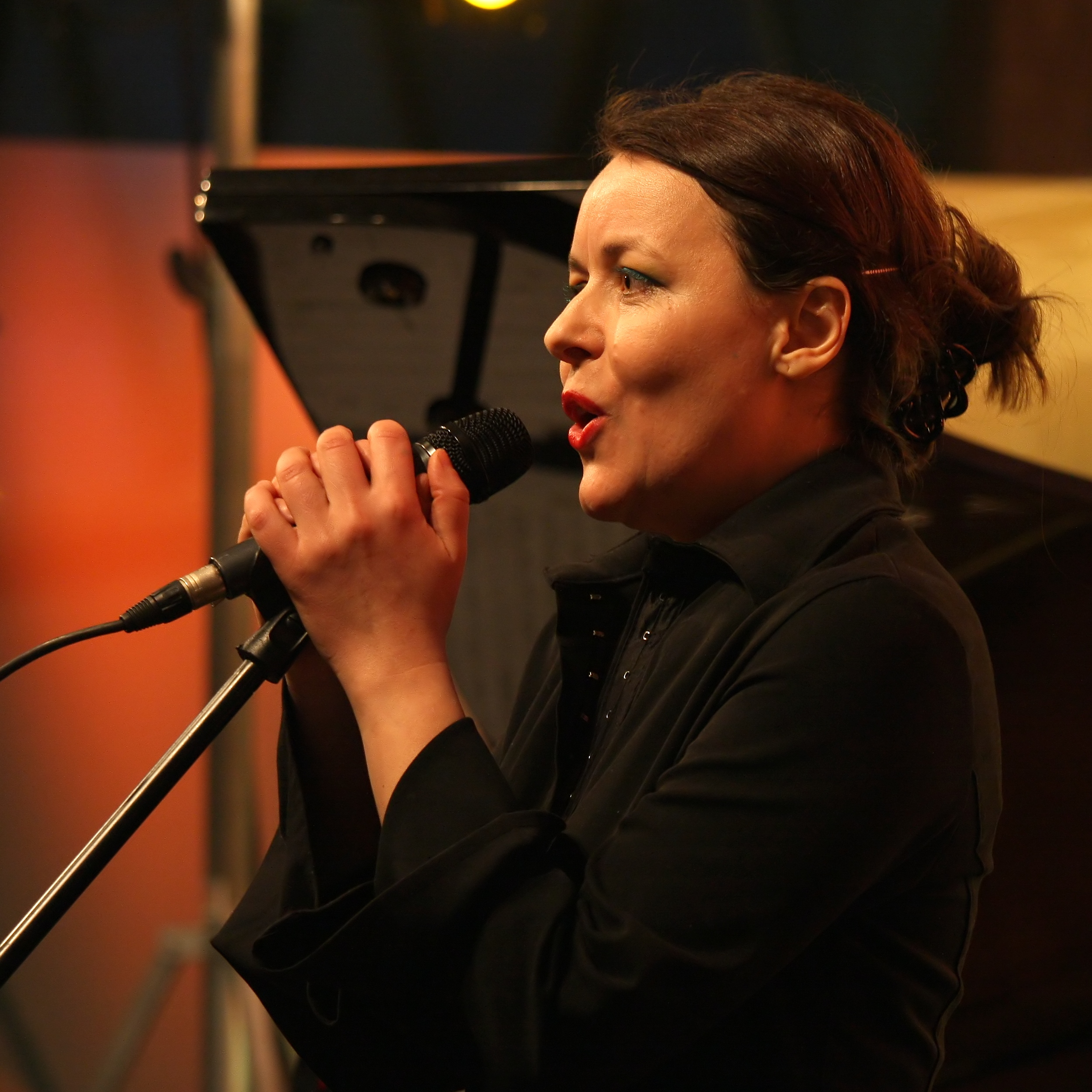 Mariana Sadovska with the group "Borderland". Performance at the "Domforum", Cologne, Germany